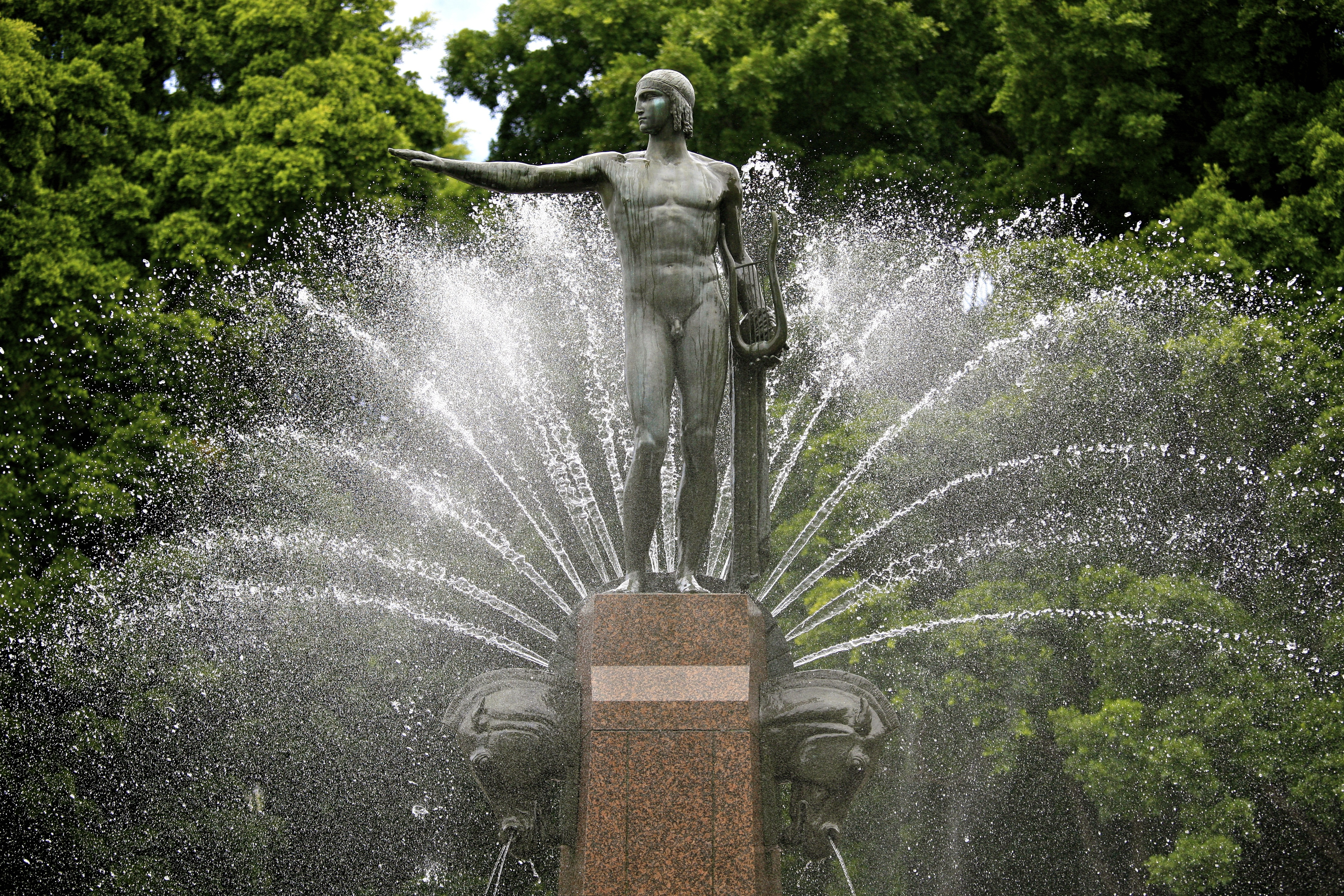 Apollo (1932), Archibald Fountain, Hyde Park, Sydney. The fan of water jets represent the rising of the sun.